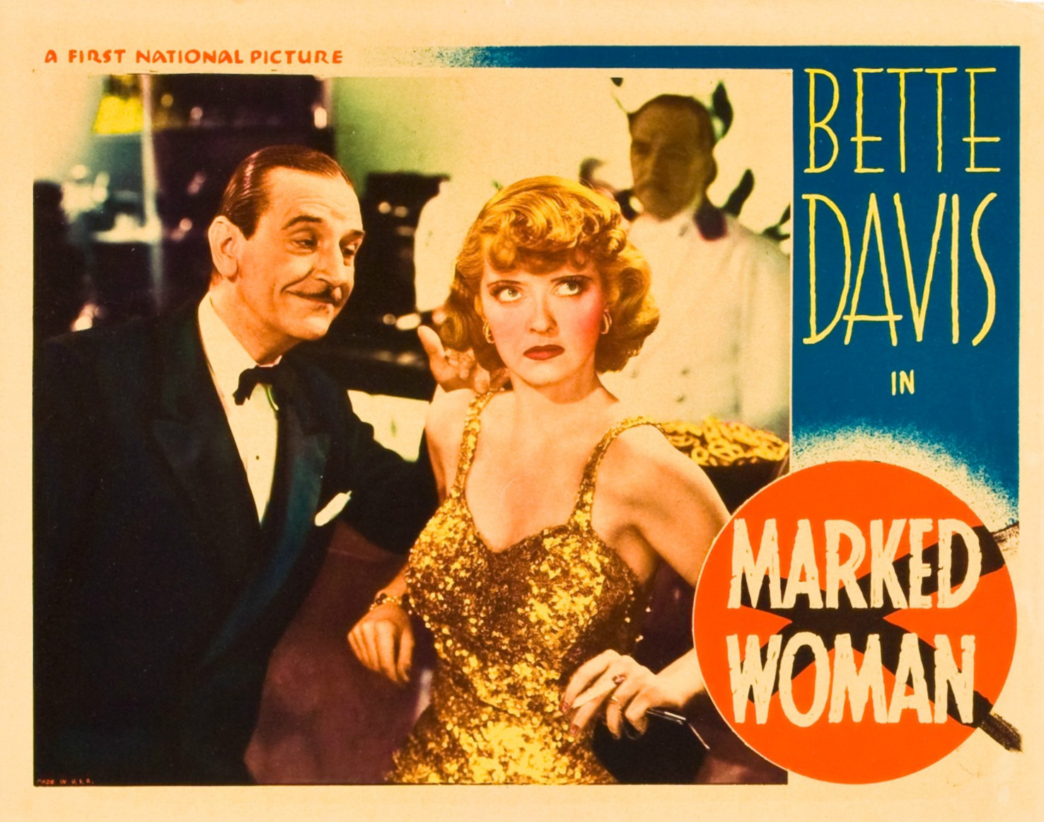 Lobby card from the American film Marked Woman (1937) with Bette Davis and Carlos San Martín.